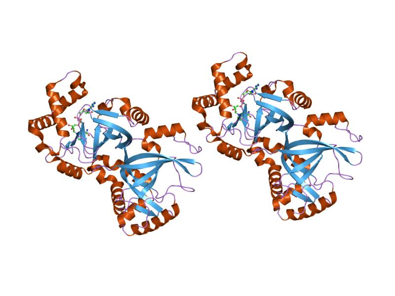 Cartoon representation of the molecular structure of protein registered with 1giq code.